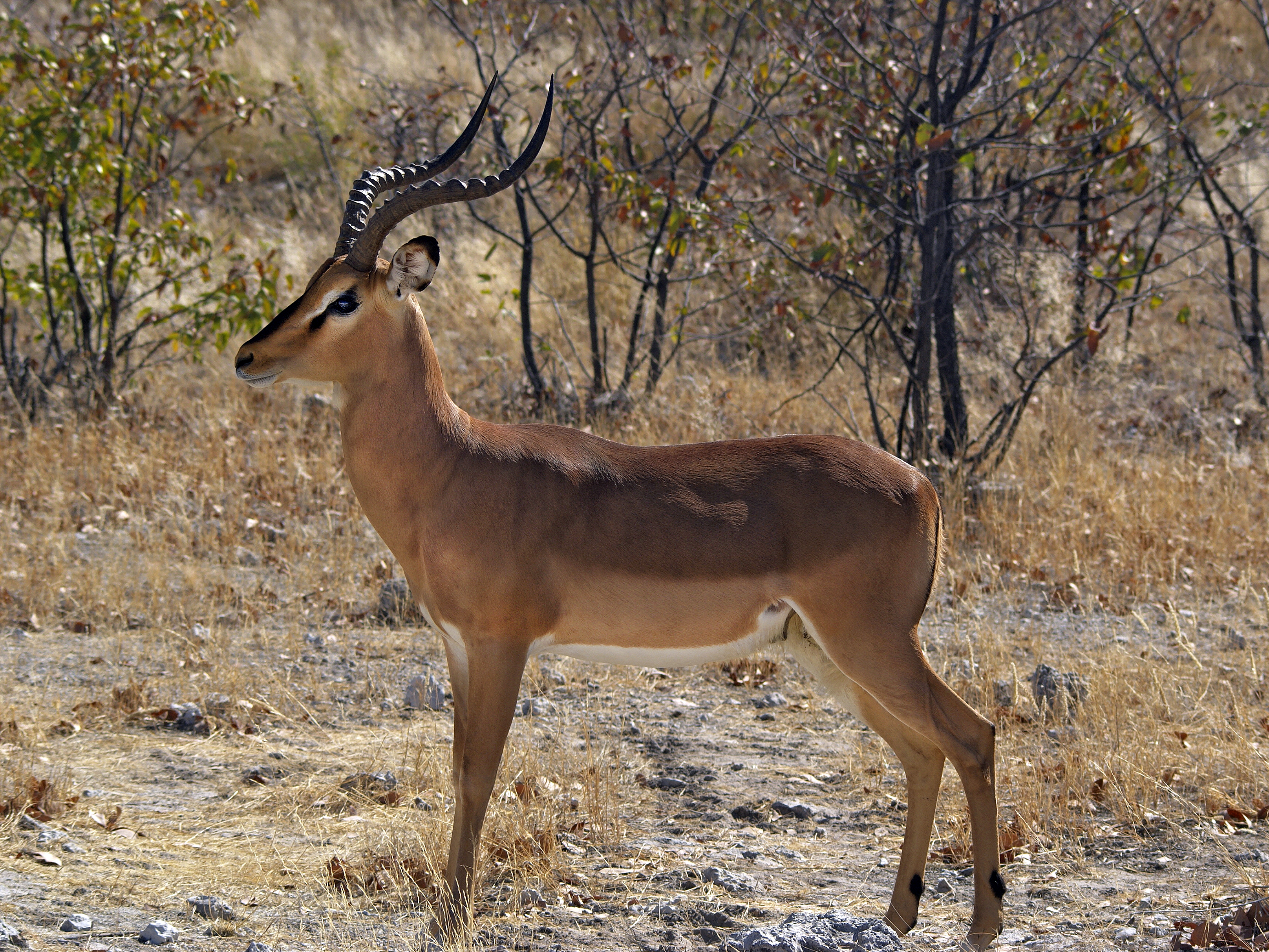 A male Black-faced Impala between Olifantsbad and Aus, in Etosha National Park, Namibia